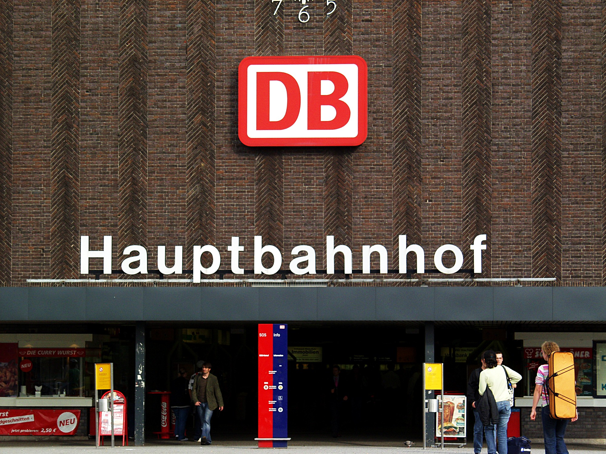 Main building of main railway station Duisburg, Germany This is a photograph of an architectural monument.